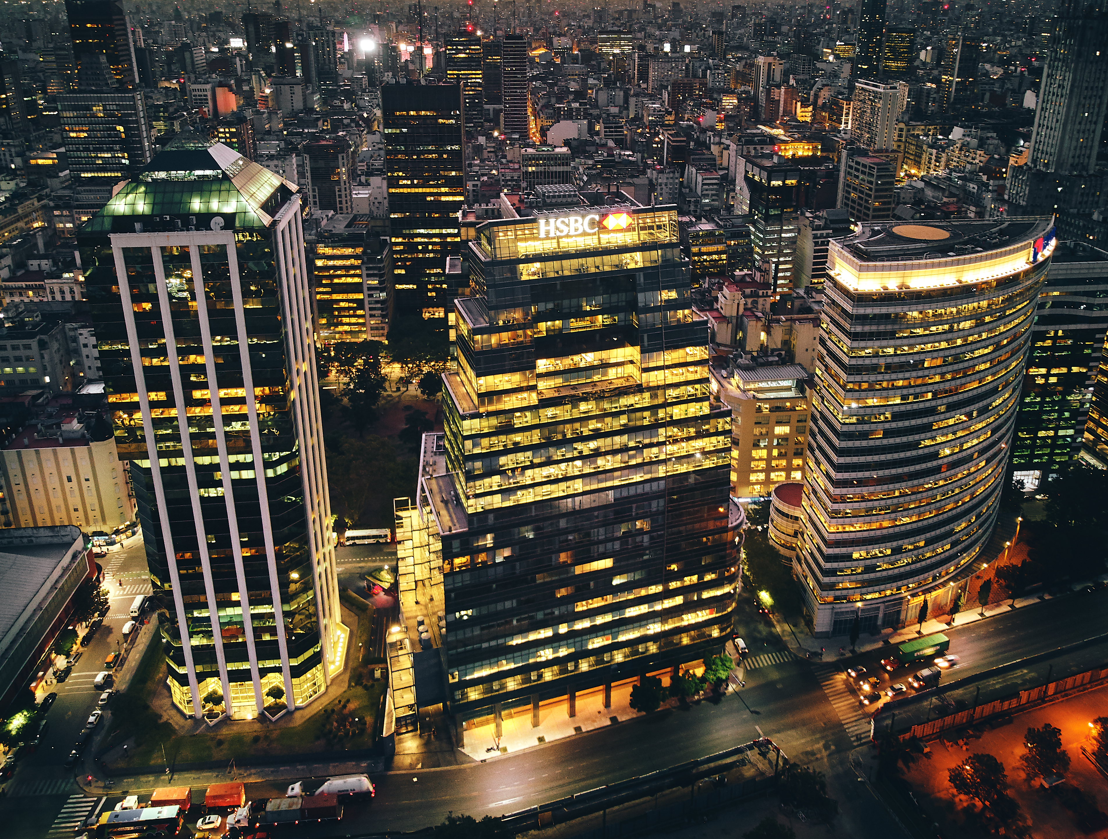 Partial view of downtown Buenos Aires. The Bouchard, Bouchard Plaza, and República buildings are in the forefront.